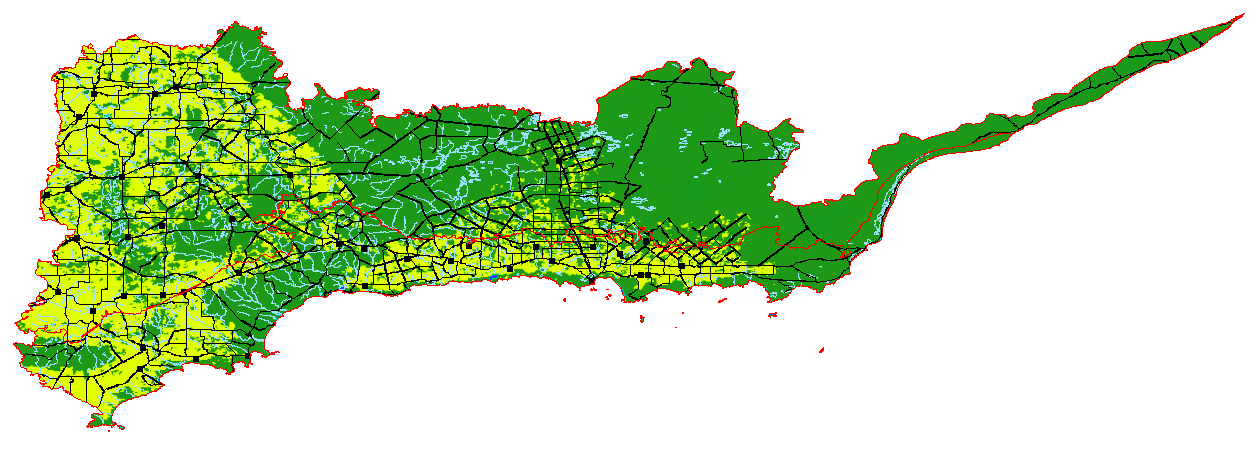 This is a map showing internal detail of the Esperance Mallee ecoregion, which is defined as a aggregation of the Esperance Plains and Mallee IBRA regions. Areas that are predominantly given over to agriculture are shown in yellow; those that are still native vegetation are green; barren areas are light brown. The IBRA region boundaries are shown in red. Roads, railway lines, towns, watercourses and lakes are also shown. WWF code AA1202